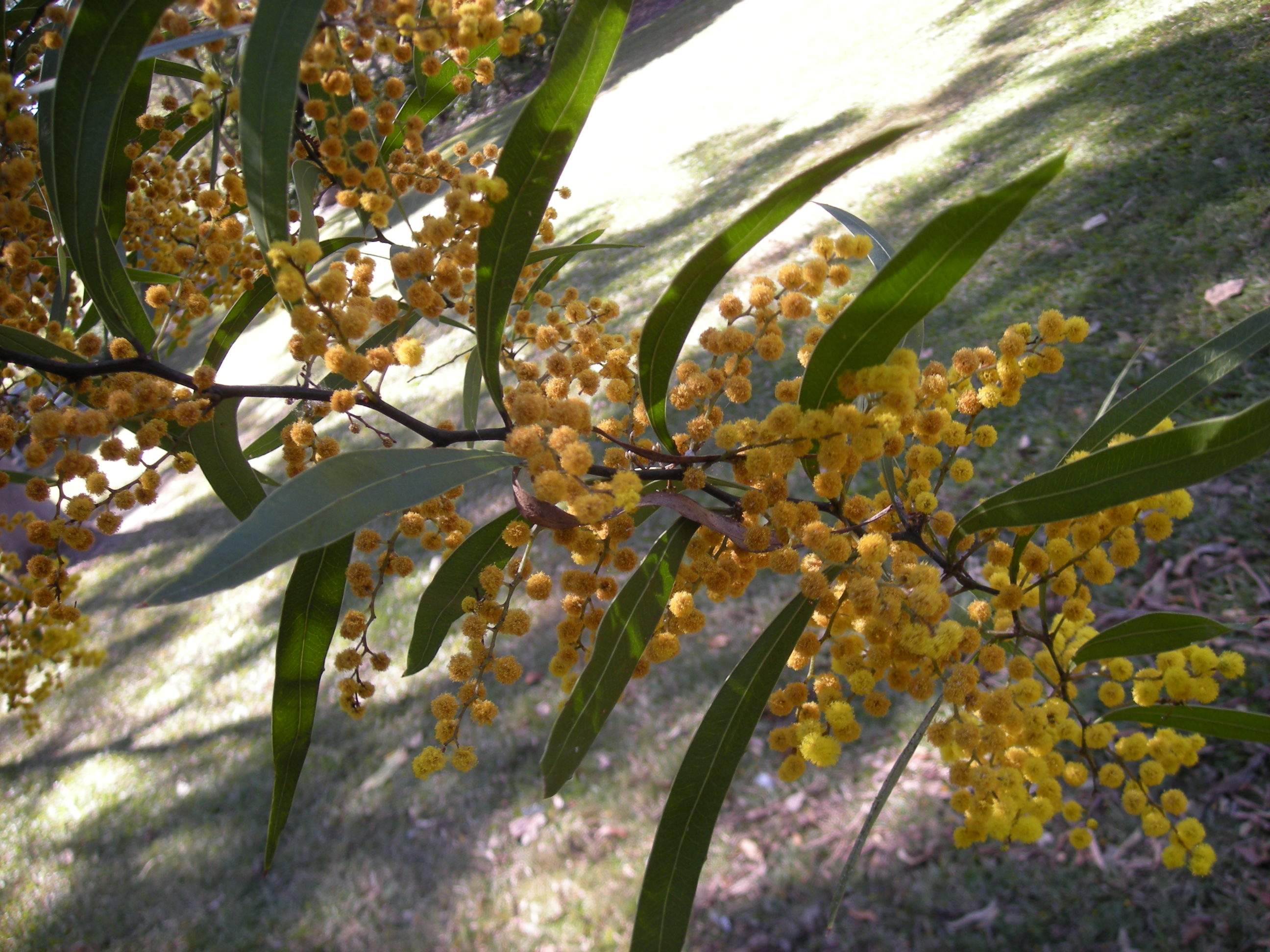 Acacia macradenia foliage and flowers